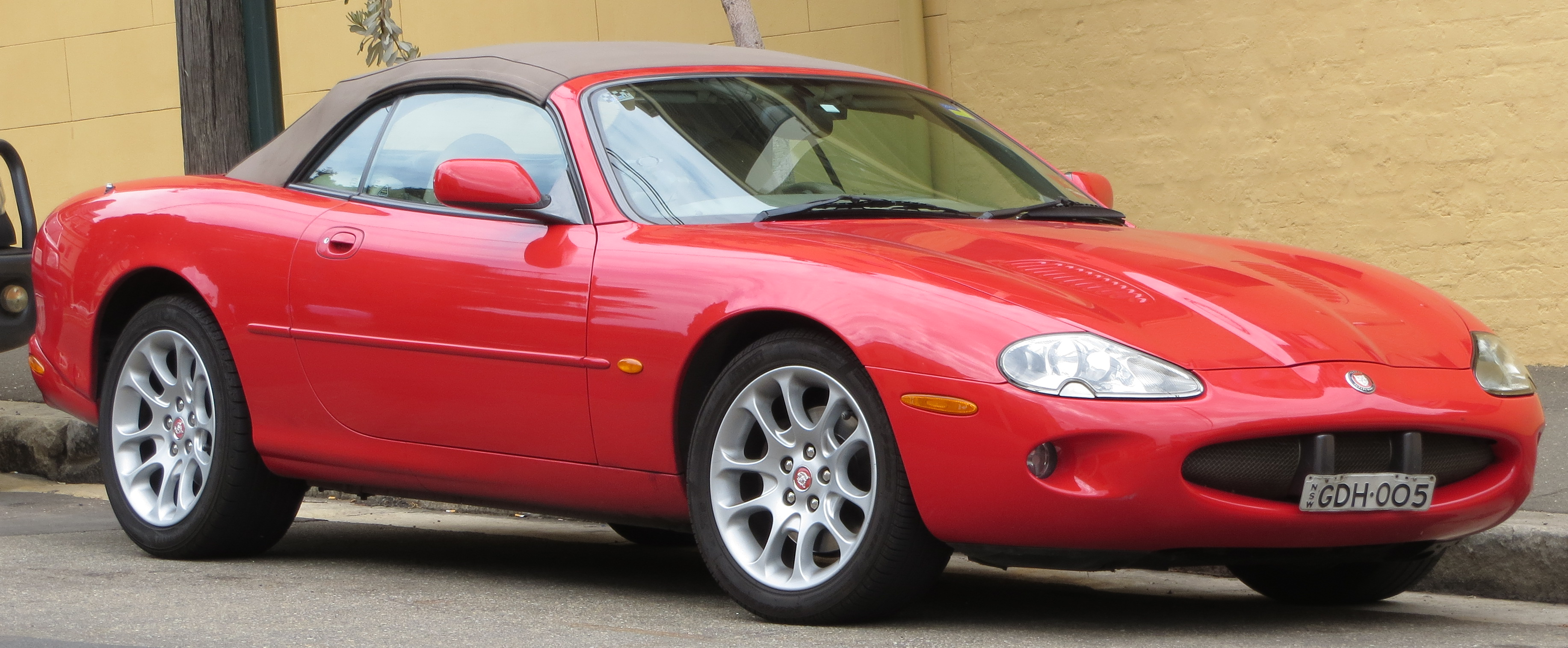 1999 Jaguar XKR (X100) convertible. Photographed in Millers Point, New South Wales, Australia.